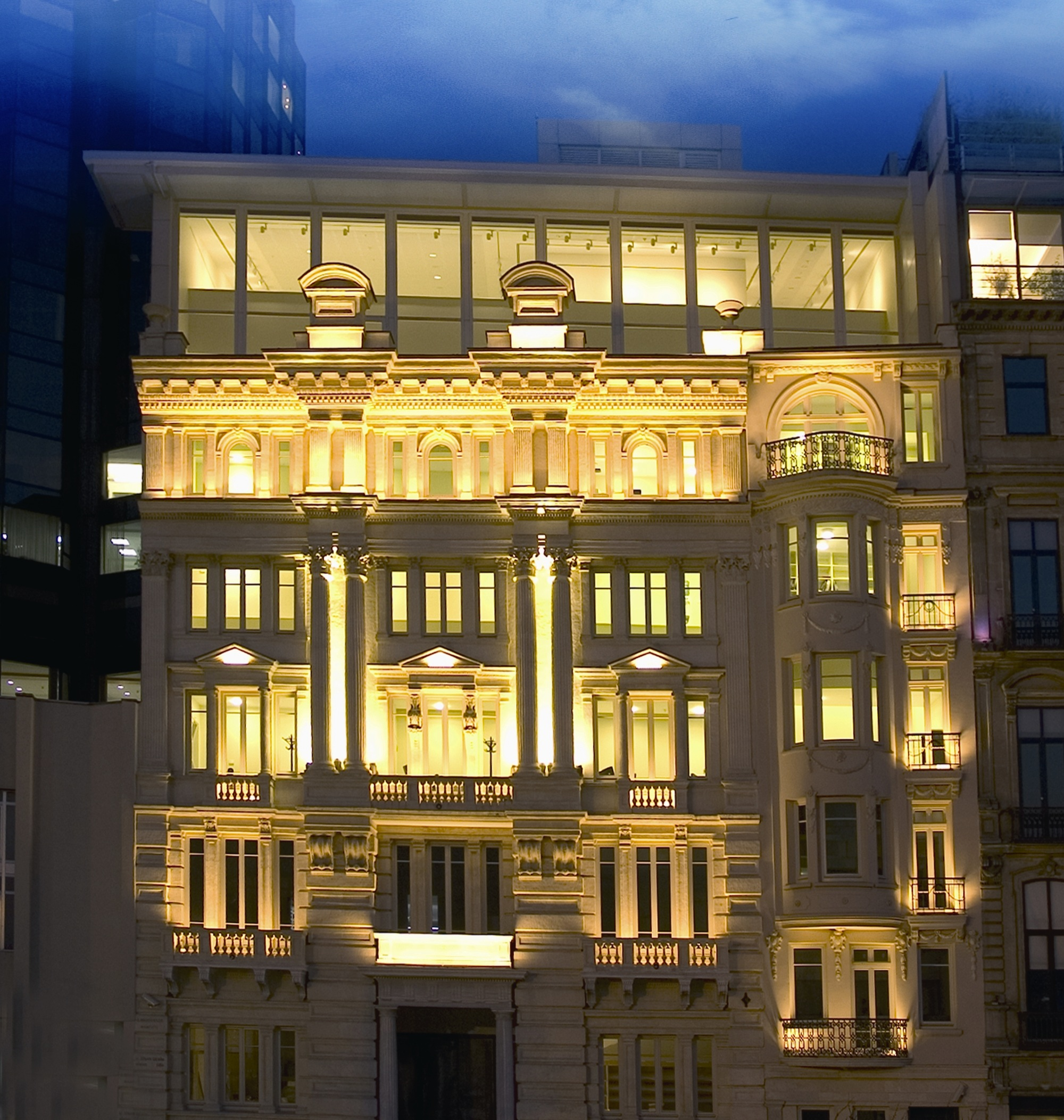 Asked for and received picture for inclusion in Wikipedia from the Pera Museum administration.